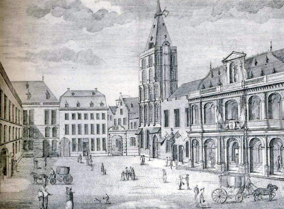 Townhall of Cologne, Germany, copperplate engraving about 1798